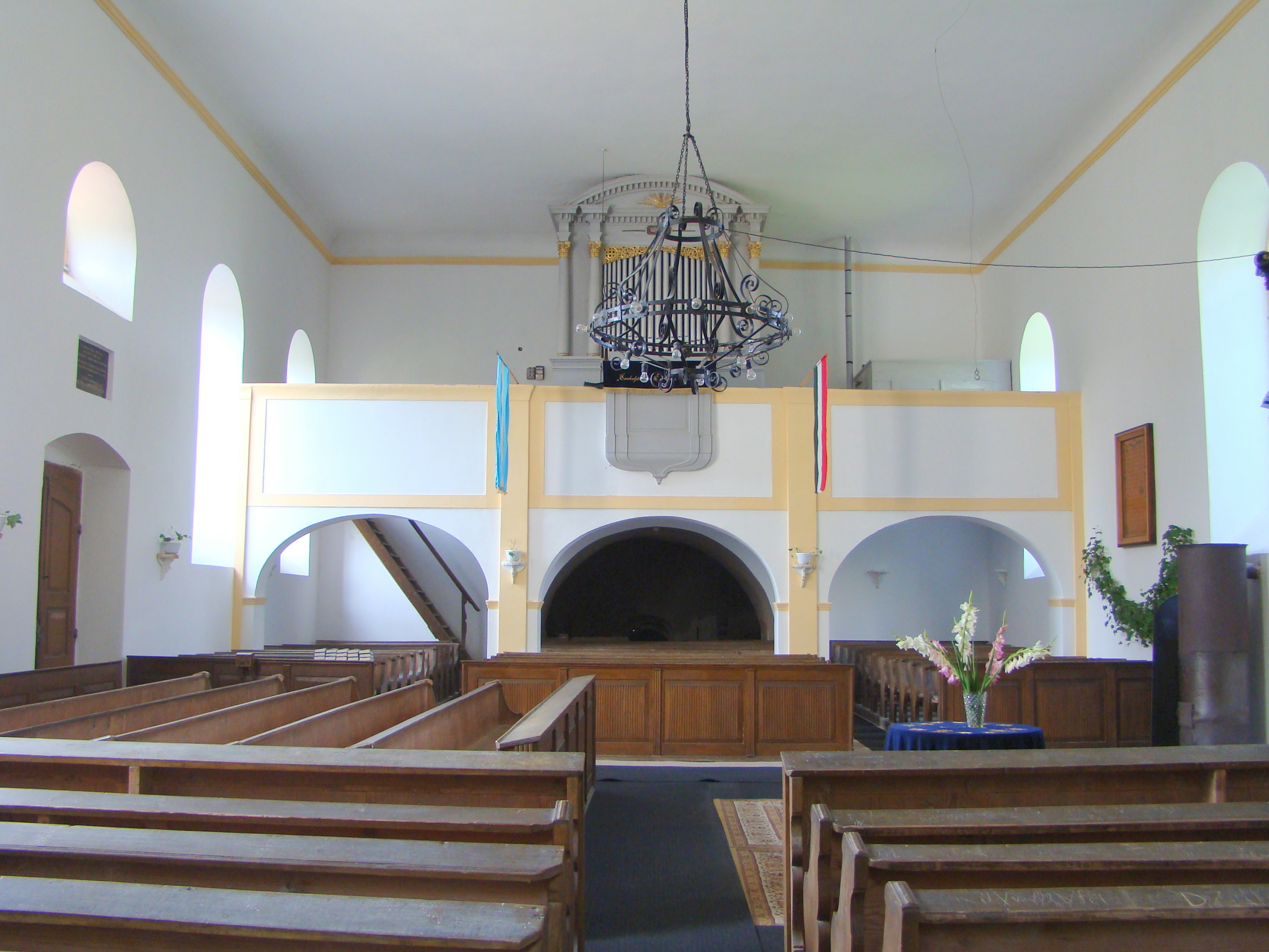 Reformed church in Bicfalău, Covasna County, Romania